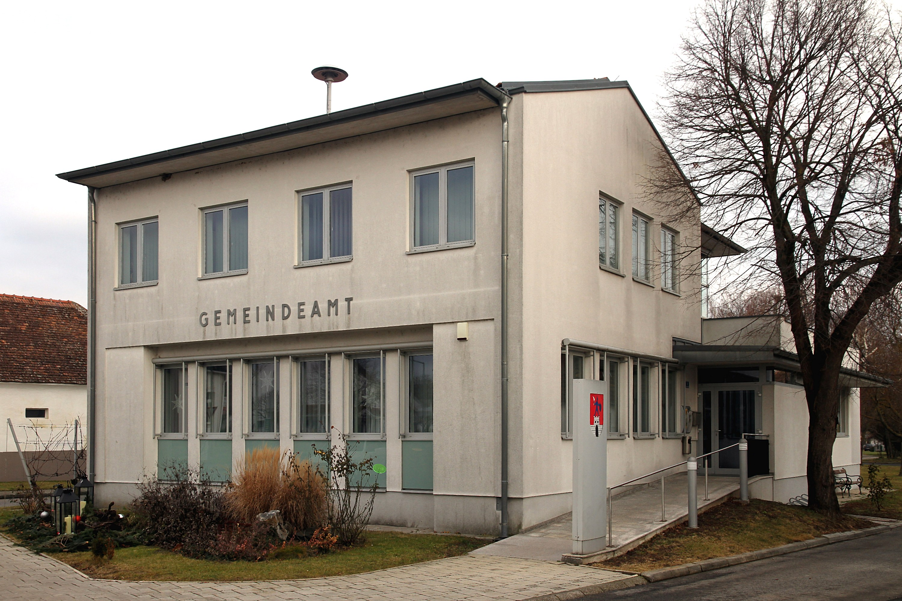 Lutzmannsburg - municipal office